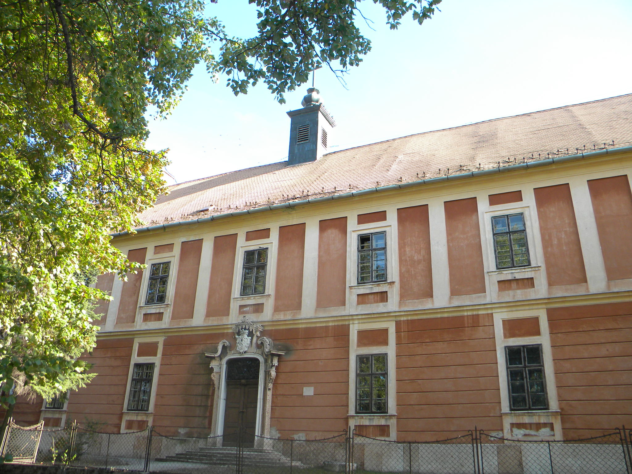 Location: Hungary, Tata